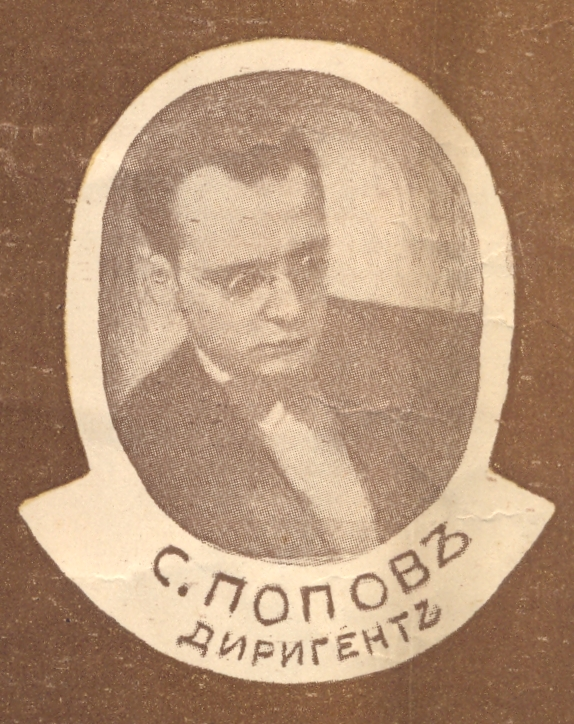 Portrait of the Bulgarian violinist and conductor Sasha Popov on a poster "Bulgarian scenic art 1900-1932"